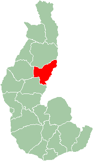 Location map of Beroroha region in Toliara province.